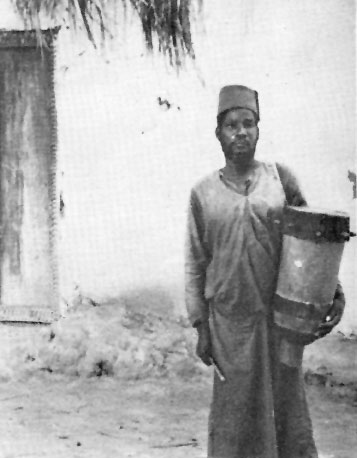 Congolese man of Arab descent